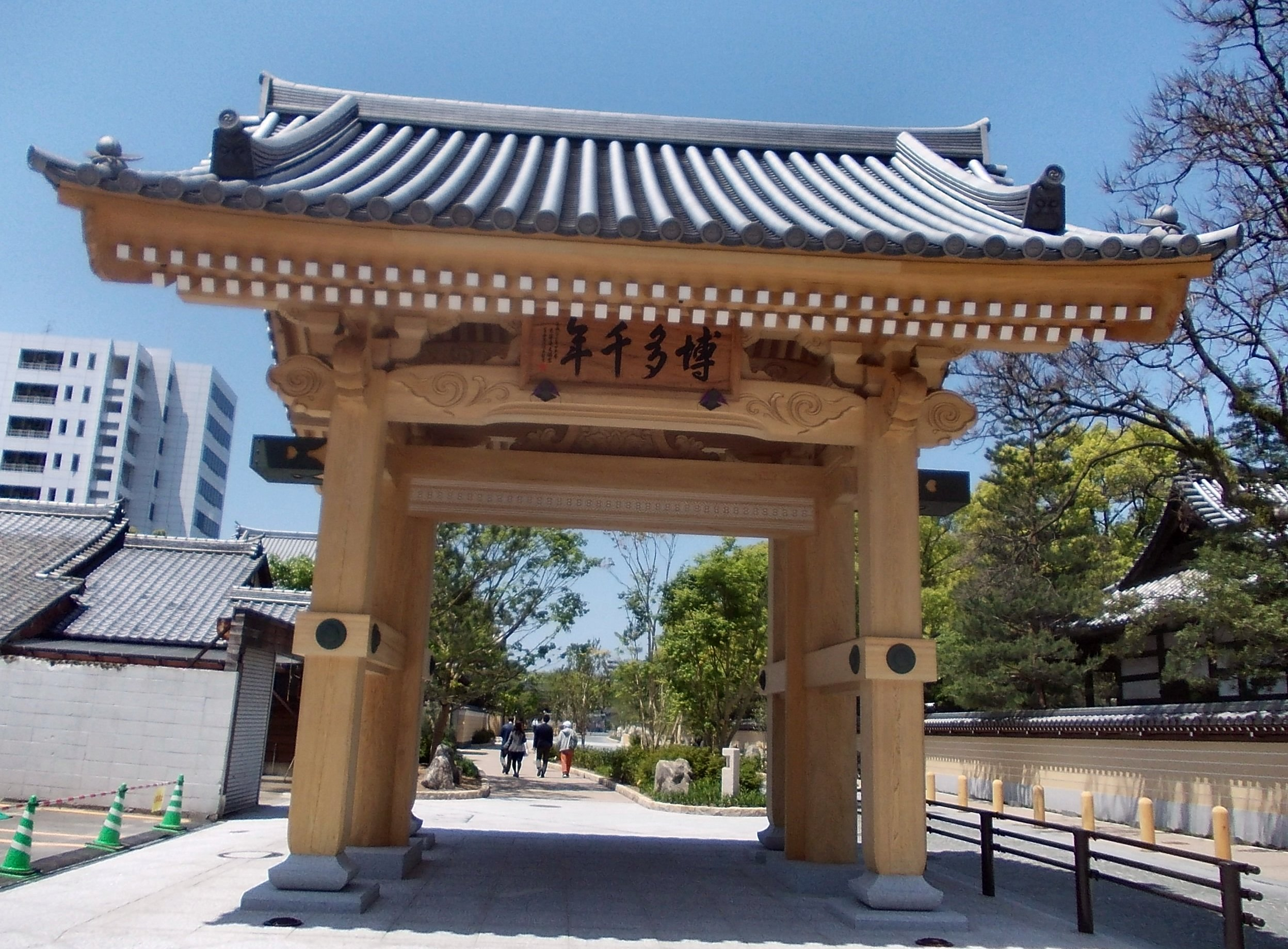 Hakata Sennen Gate, the new symbol of Hakata area in Fukuoka city, was completed in Joten-ji Avenue on 28 March 2014.